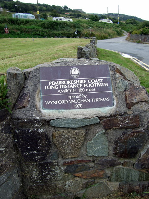 Pembrokeshire Coast Path starts here Or ends; at the boundary with Ceredigion. Wynford Vaughan is known as one of the Welsh 'greats' and had a distinguished career as a broadcaster.